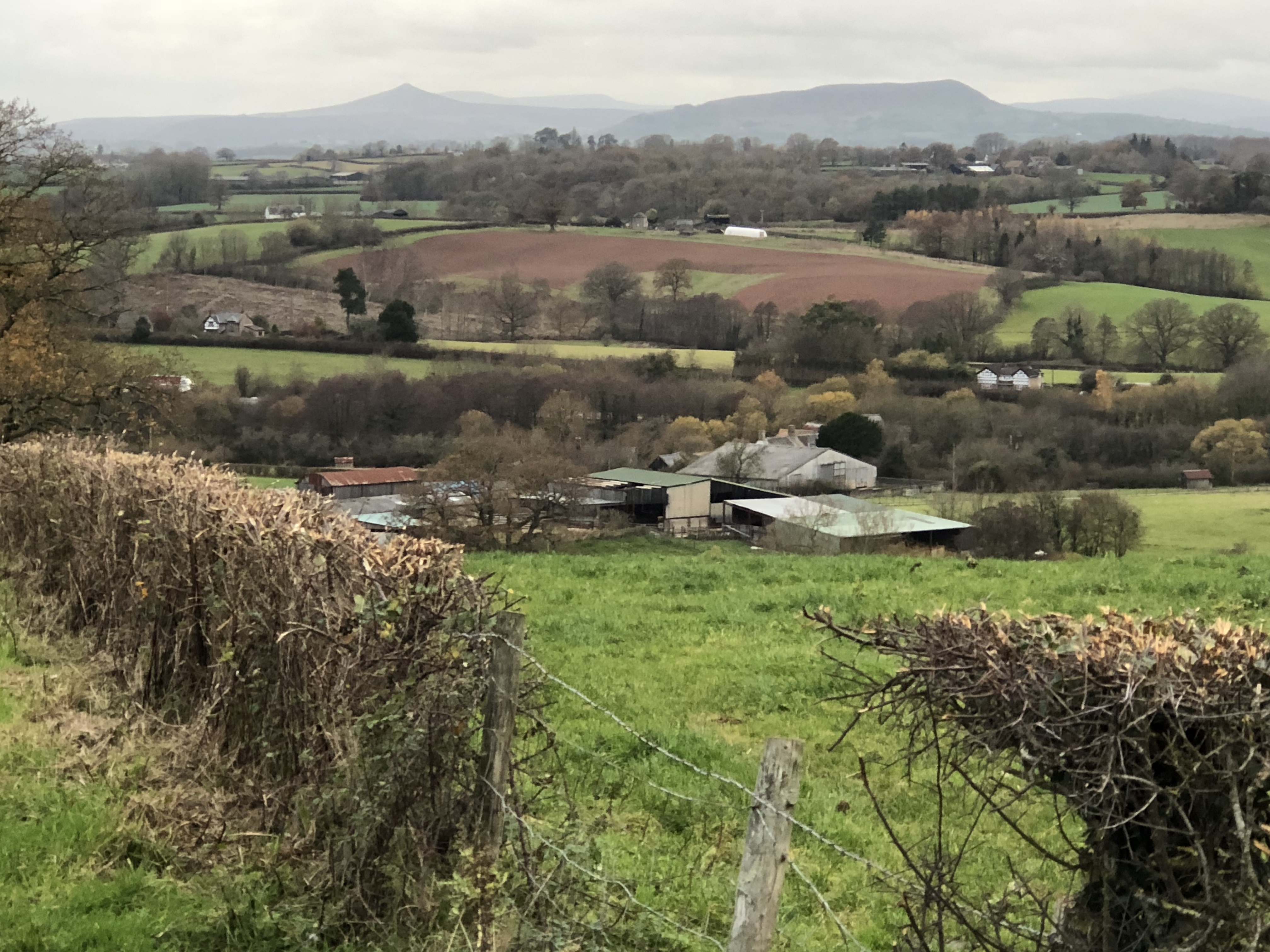 Upper Tal-Y-Fan, Mitchel Troy